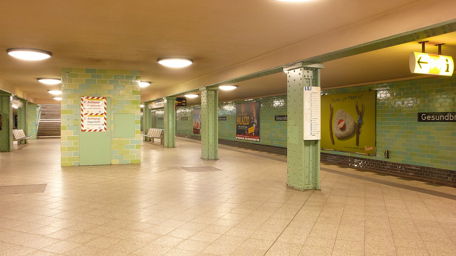 Gesundbrunnen subway station Berlin